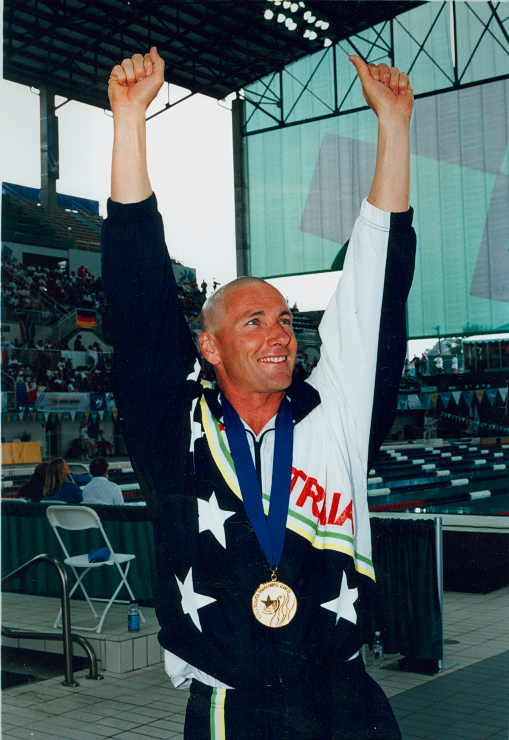 Australian athletes at the Atlanta 1996 Paralympic Games